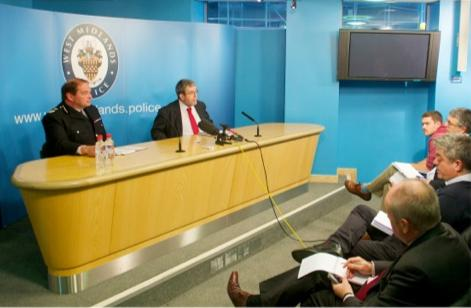 Chief Constable Chris Sims and Bob Jones held a joint press conference this morning on his first official day as Police and Crime Commissioner.